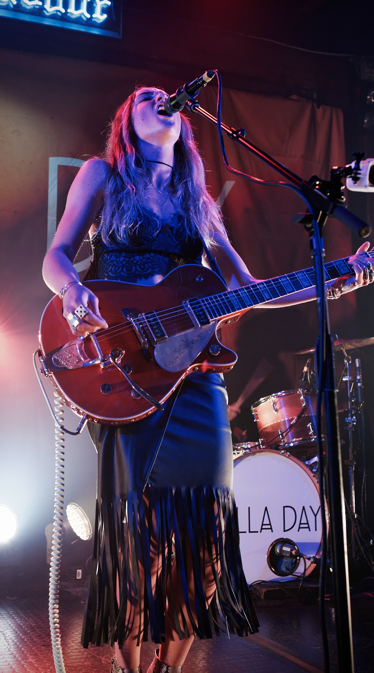 Zella Day at the Troubadour in 2015